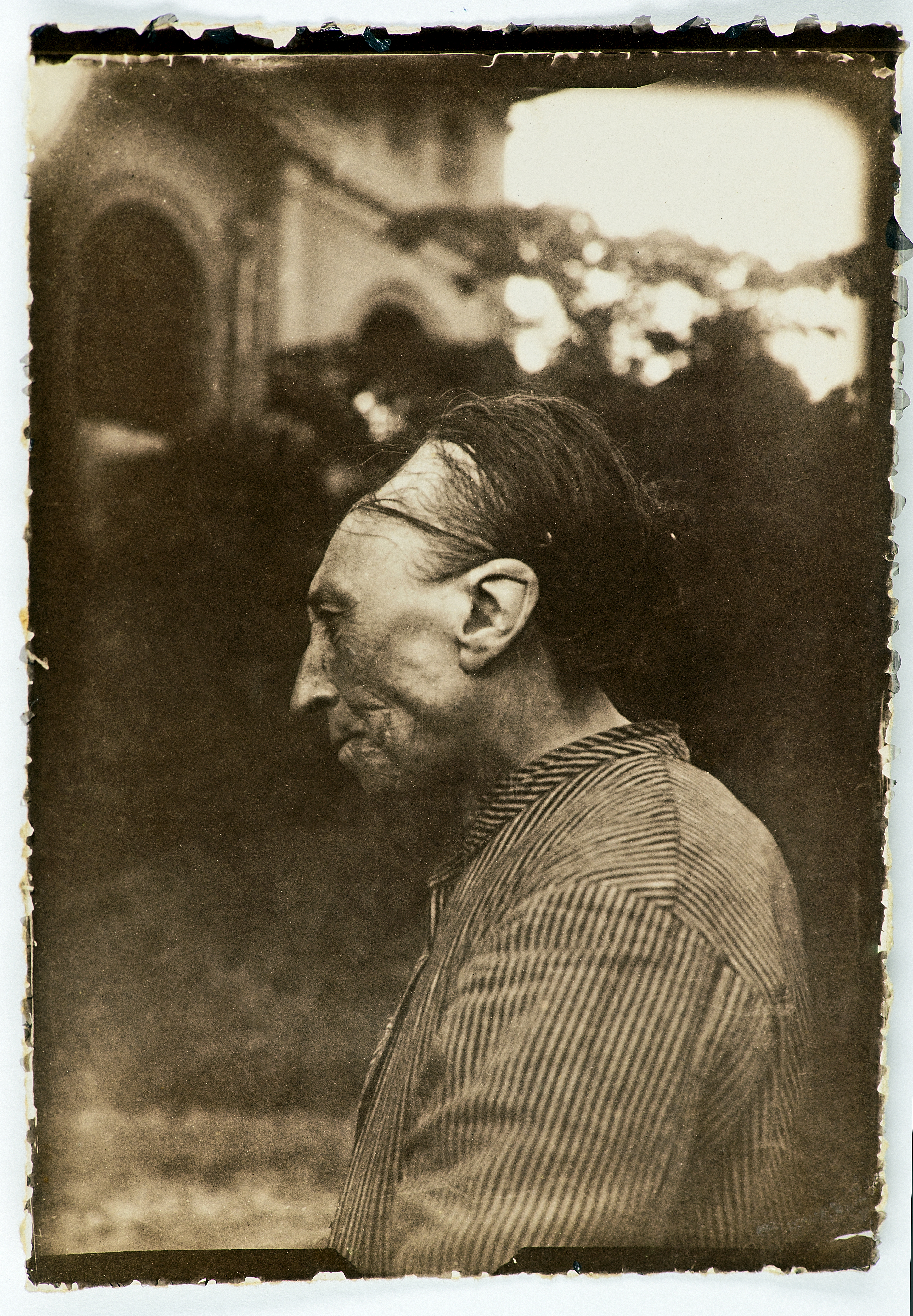 Homo sapiens sapiens - Deliberate deformity of the skull, "Toulouse deformity ".